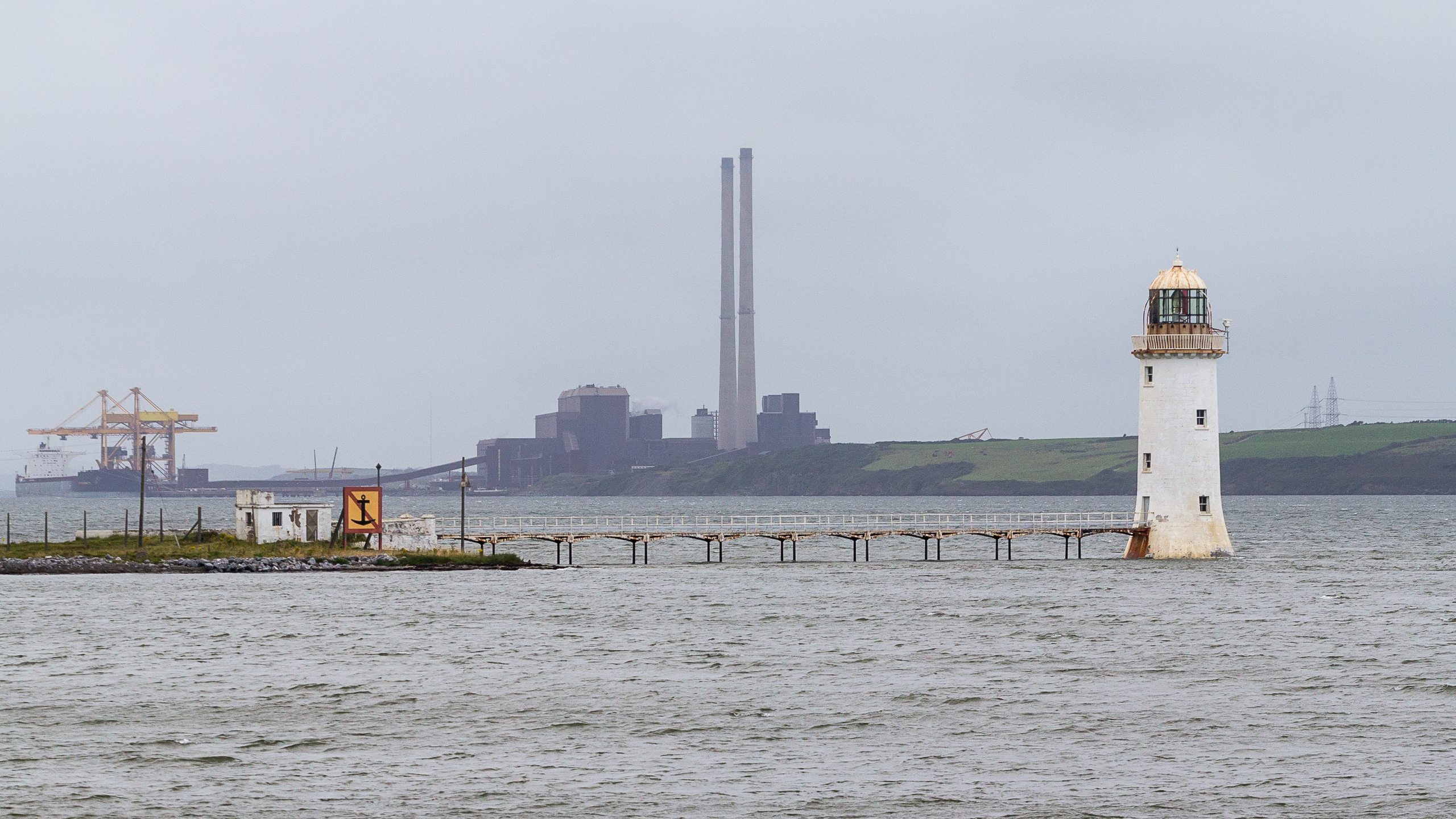 Tarbert Lighthouse with Moneypoint Power Station in the background